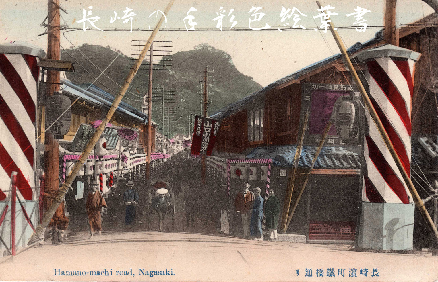 Japanese hand tinted postcard of Hamamachi Tekkyo (Iron Bridge) Road in Nagasaki:Nagasaki